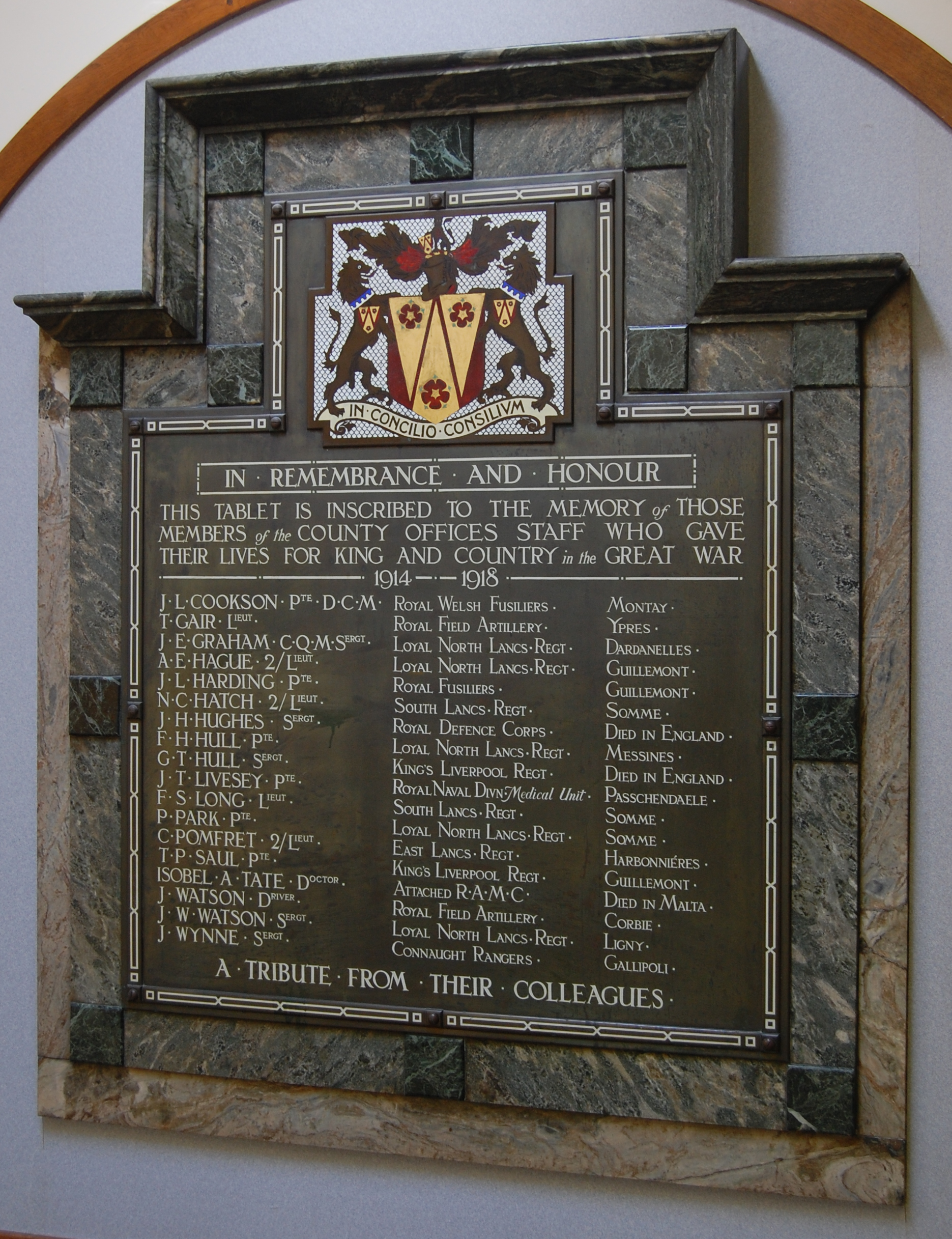 County Hall, Preston, England. Transcription: In Remembrance and Honour This tablet is inscribed to the memory of those members of the county offices staff who gave their lives for King and country in the Great War. 1914-1918 [names] A tribute from their colleagues.